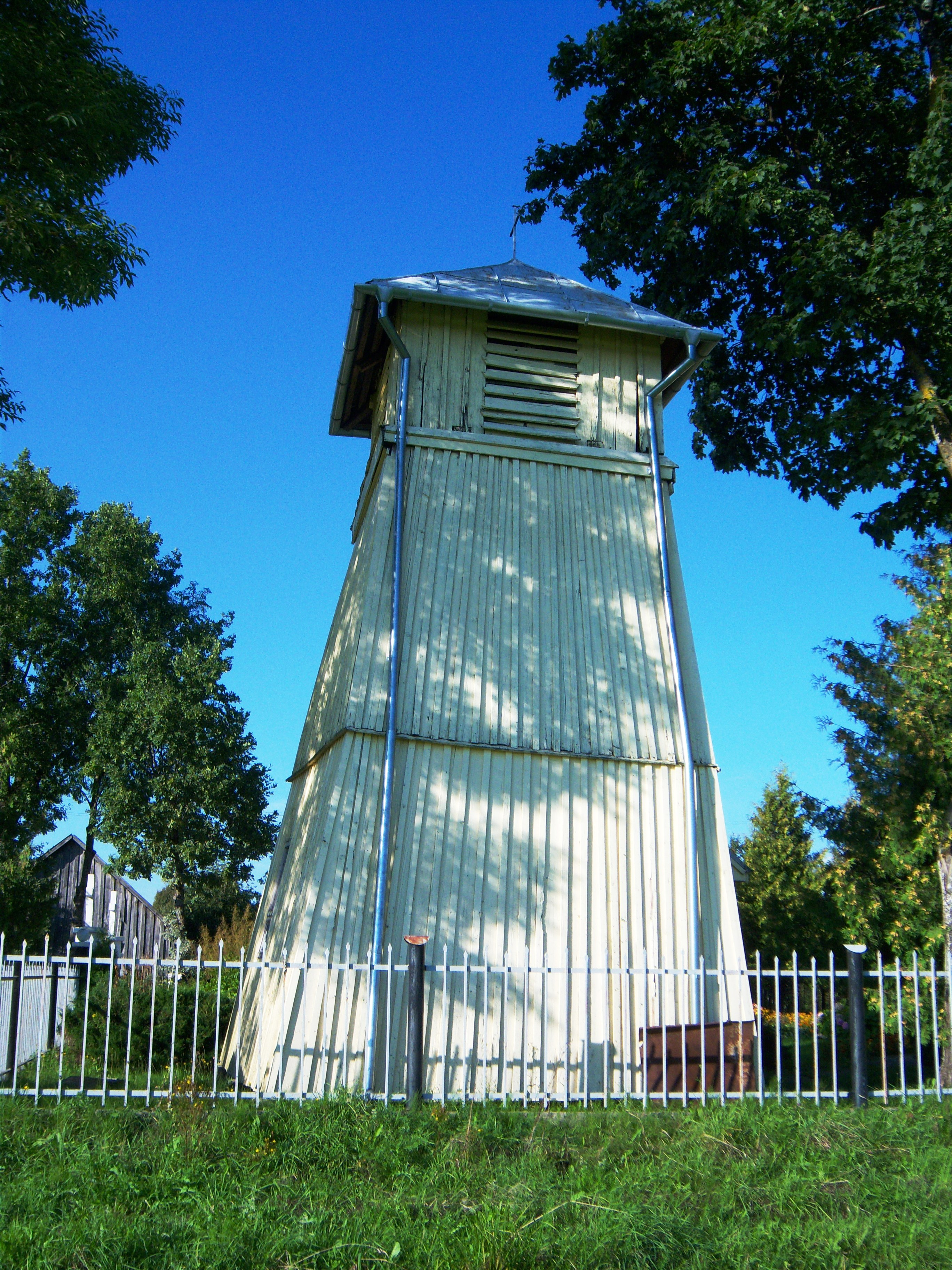 Mikoliškiai Catholic Church, bell tower, Kretinga District, Lithuania